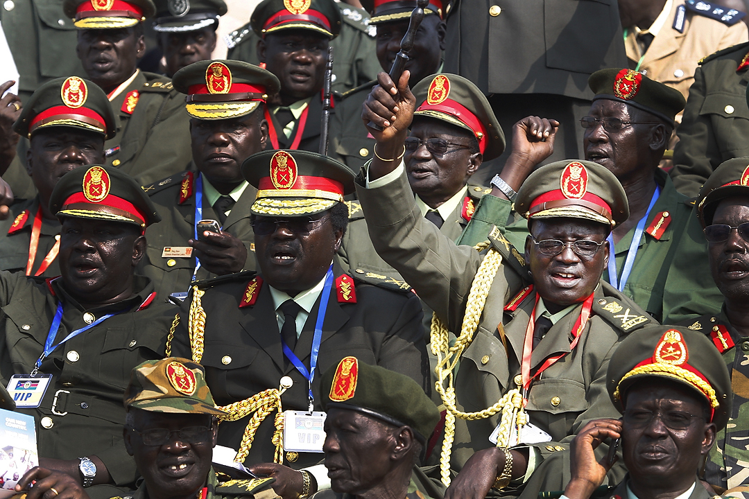 Generals of South Sudan's army celebrate during official independence day ceremonies. After two decades of civil war and two million deaths, their dream is finally realized.